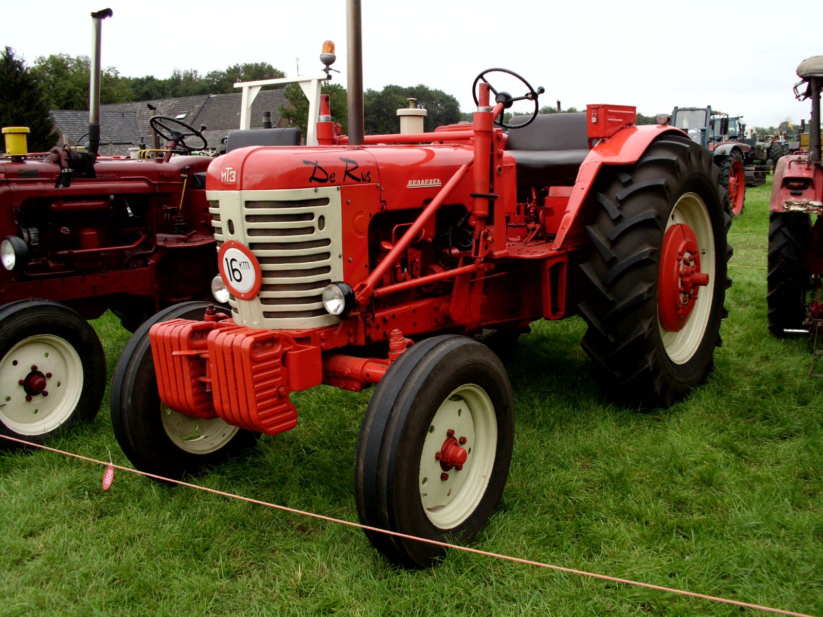 MTZ-5 tractor at the Internationaal historisch festival in Panningen 32e editie 2011.